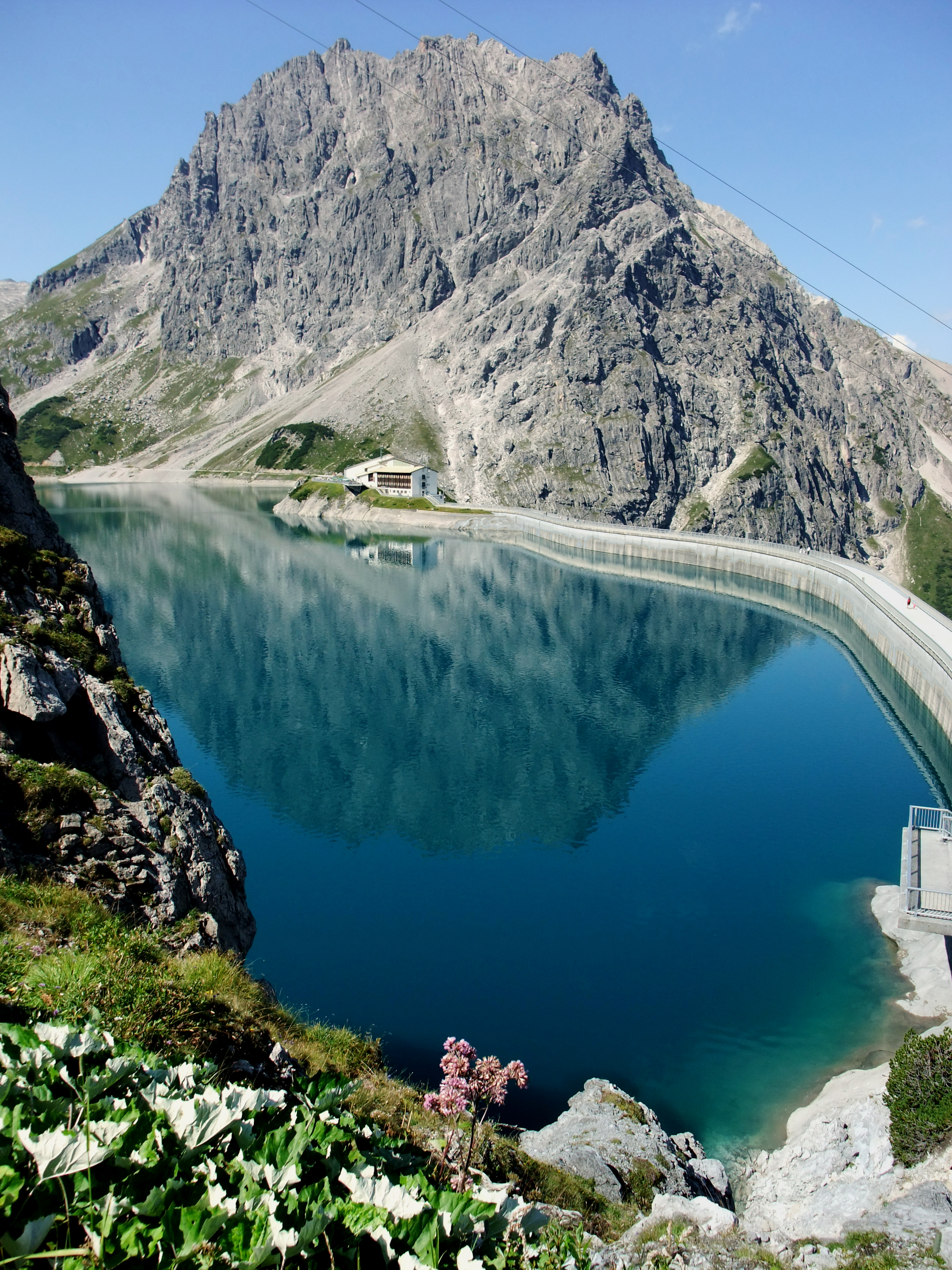 The Lünersee is a lake and reservoir. It is situated in the westernmost federal state Vorarlberg in Austria. View to the dam and mountain Seekopf (2,698 m).